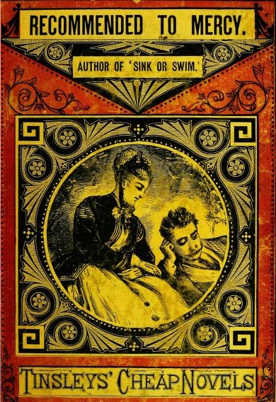 Recommended to Mercy 1869 Matilda Houstoun